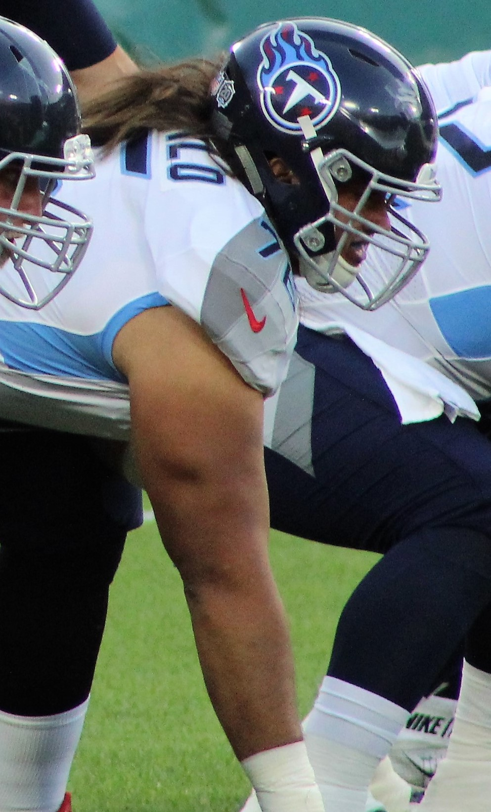 Xavier Su’a-Filo, Tennessee Titans at Green Bay Packers (Preseason), August 9, 2018